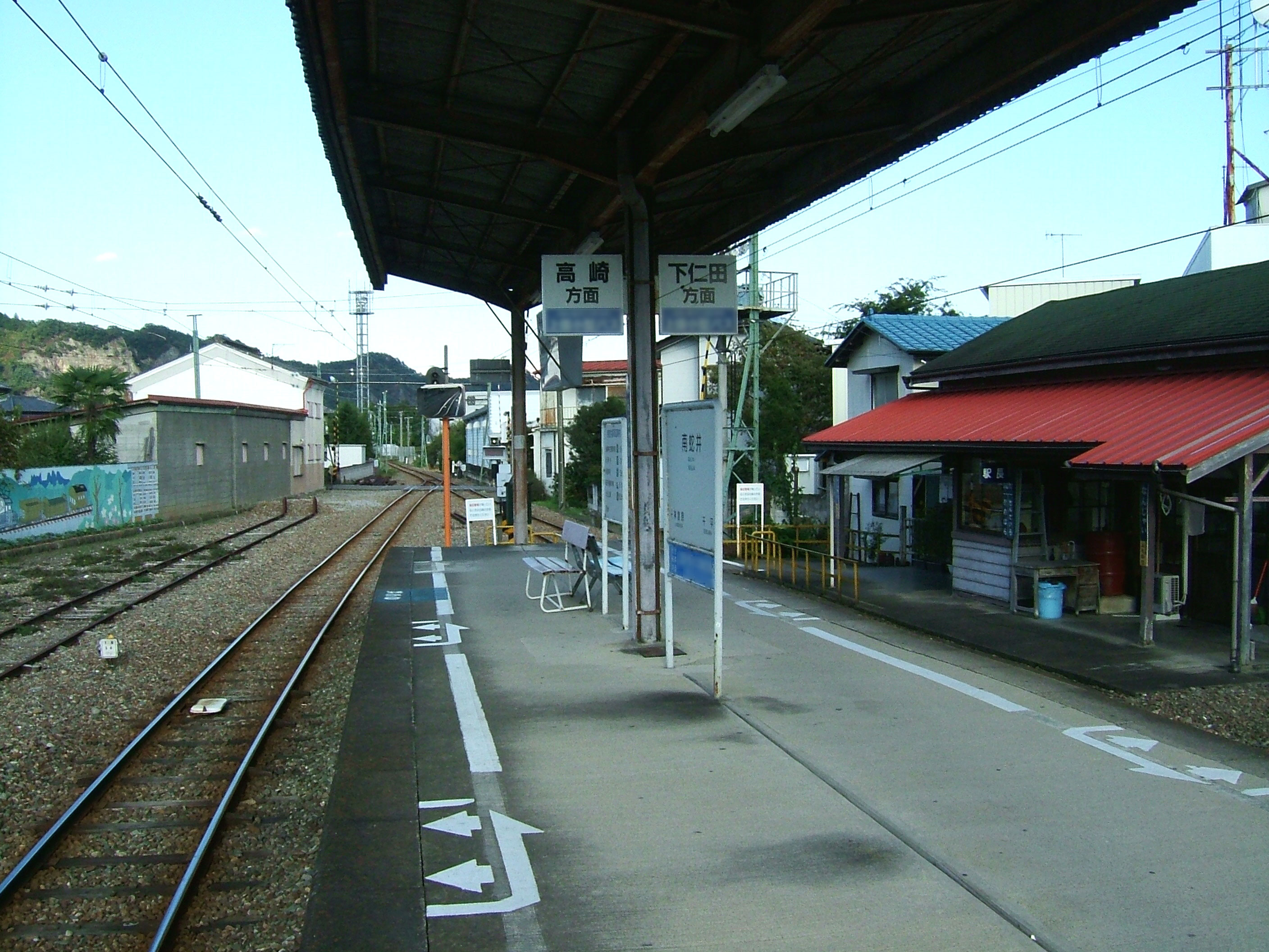 Nanjai Station platform (Jōshin Dentetsu Jōshin Line)